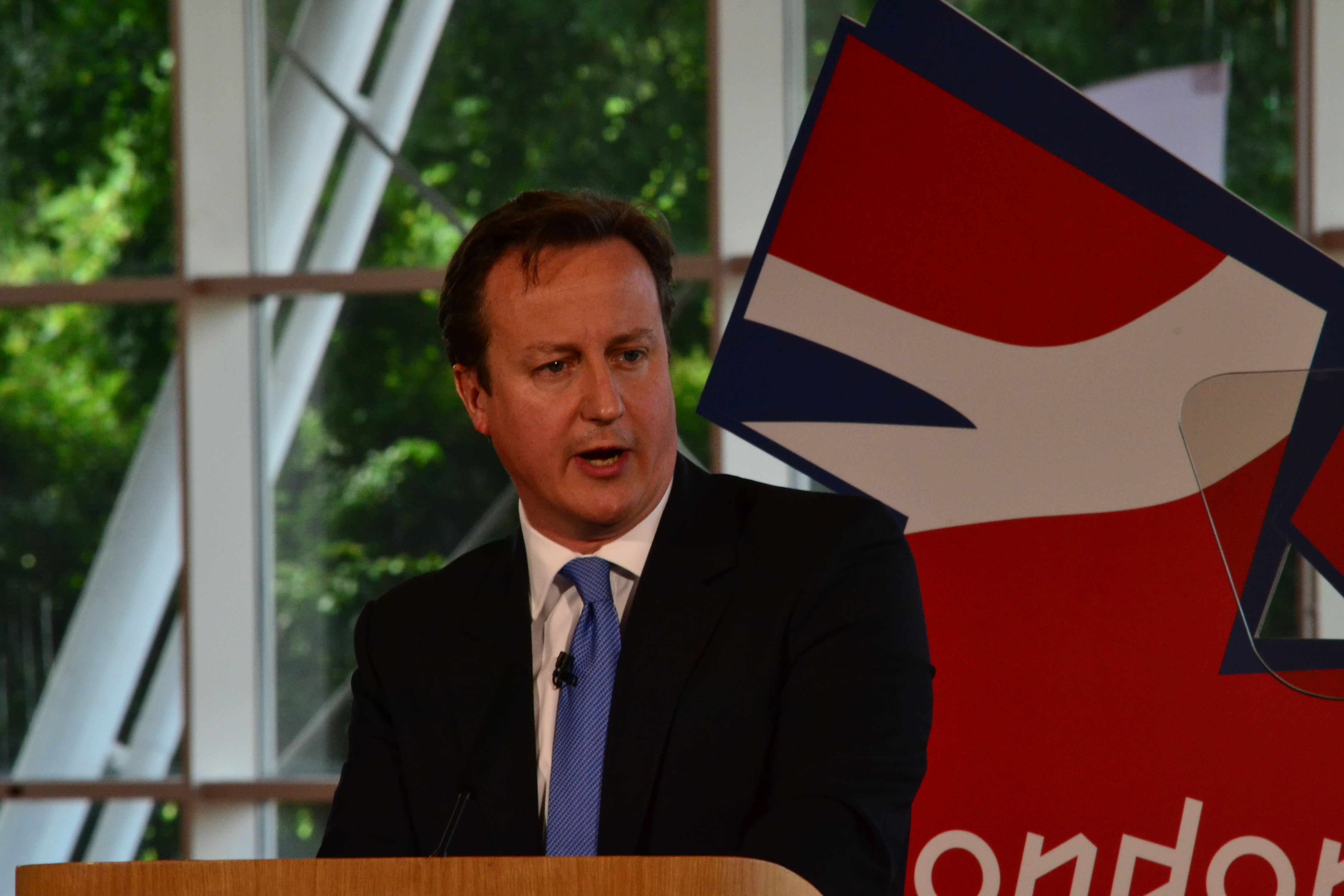 For UK Government Olympics news, videos and media resources visit .uk/ and follow @2012GovUK on twitter. Credit information for this image: Please credit Government Olympic Communications in all instances ( .uk/)